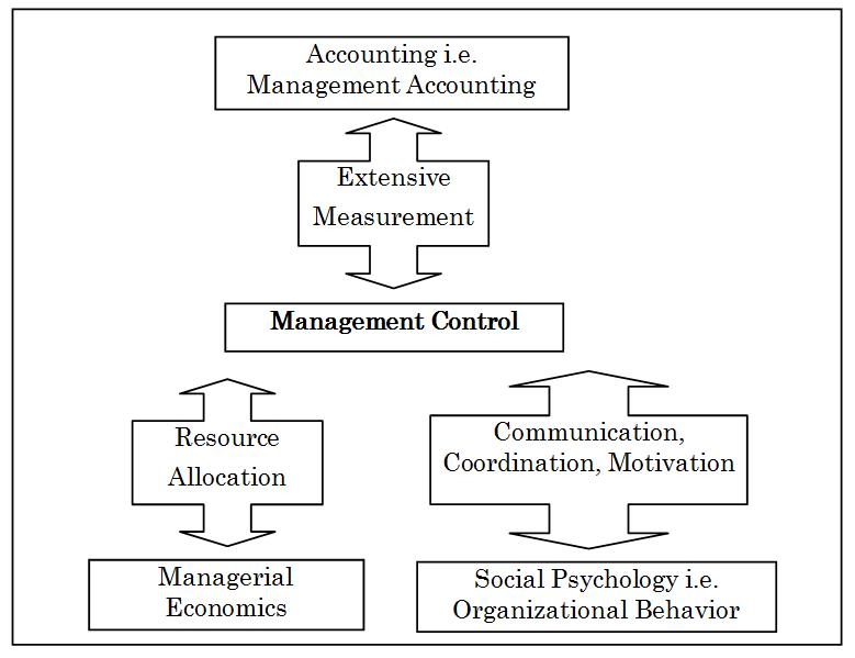 Management control as an interdisciplinary subject Rana, Yokohama, Japan